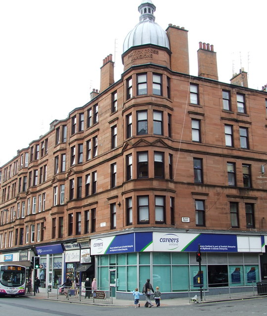 Partick Cross Mansions At the NW corner of Dumbarton Road and Byres Road.